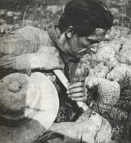 Alberto Vojtech Frič in Mexico (1923)